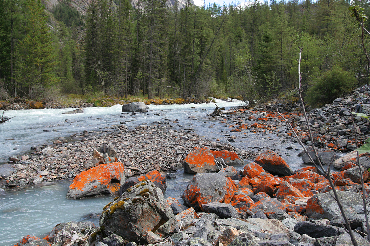 Maashey River